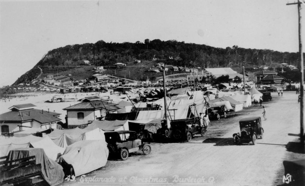 Esplanade at Burleigh, Queensland, Christmas 1932. The Esplanade at Burleigh Heads crowded with tents and cars during Christmas holidays, 1932. Tents have been erected along the road and on the beach, turning the Esplanade in to a camping site.